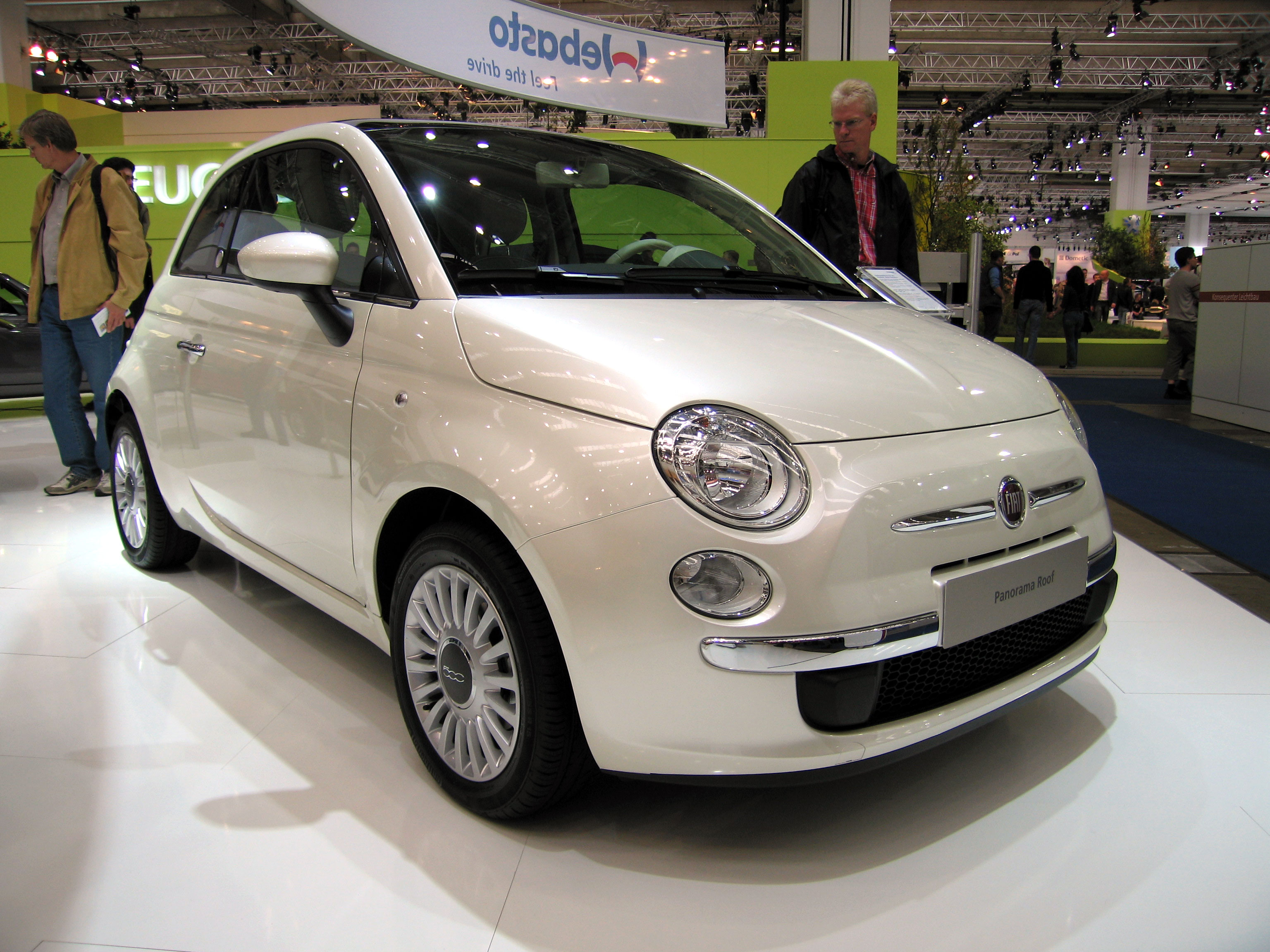 Fiat 500 with panorama roof by webasto at the IAA 2007